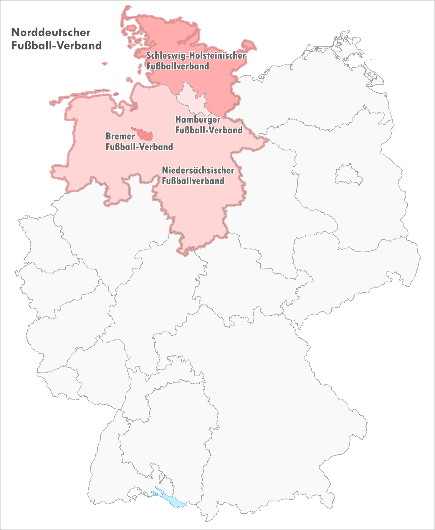 Map of regional soccer association of Norddeutschland, Germany. Please note: the areas of the regional associations of Hamburg and Schleswig-Holstein differ from official boundaries.